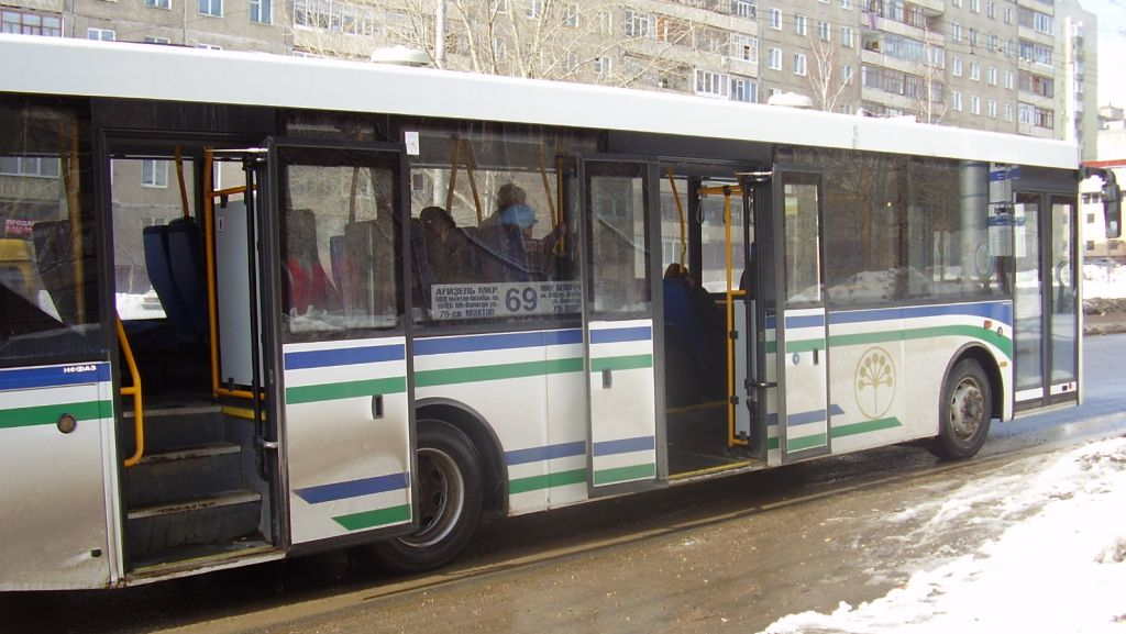 NefAZ 52997 bus with VDL chassis in Ufa, Russia.